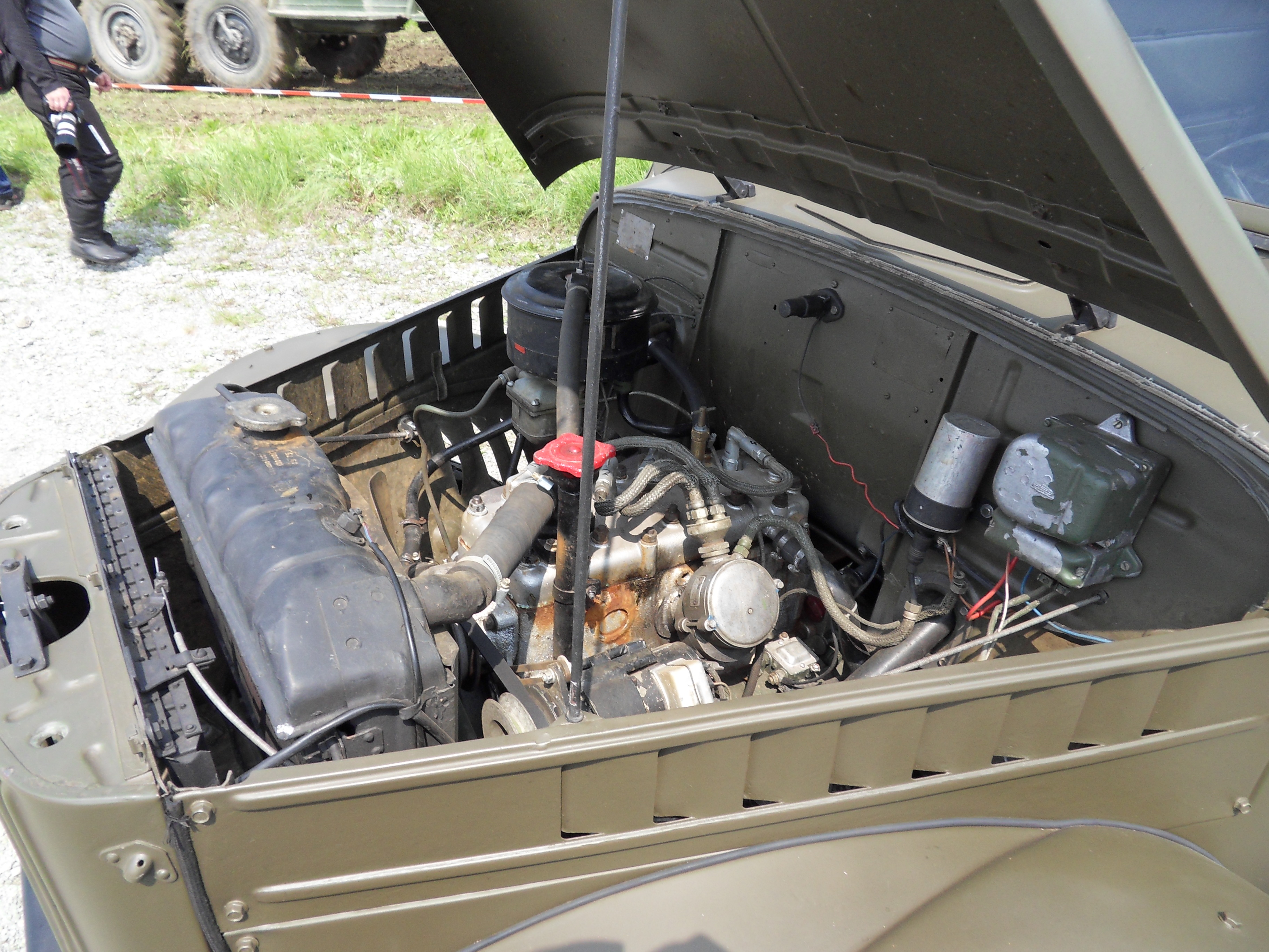 GAZ 69 shot at 2010 flugplatzfest Alkersleben airfield/Germany